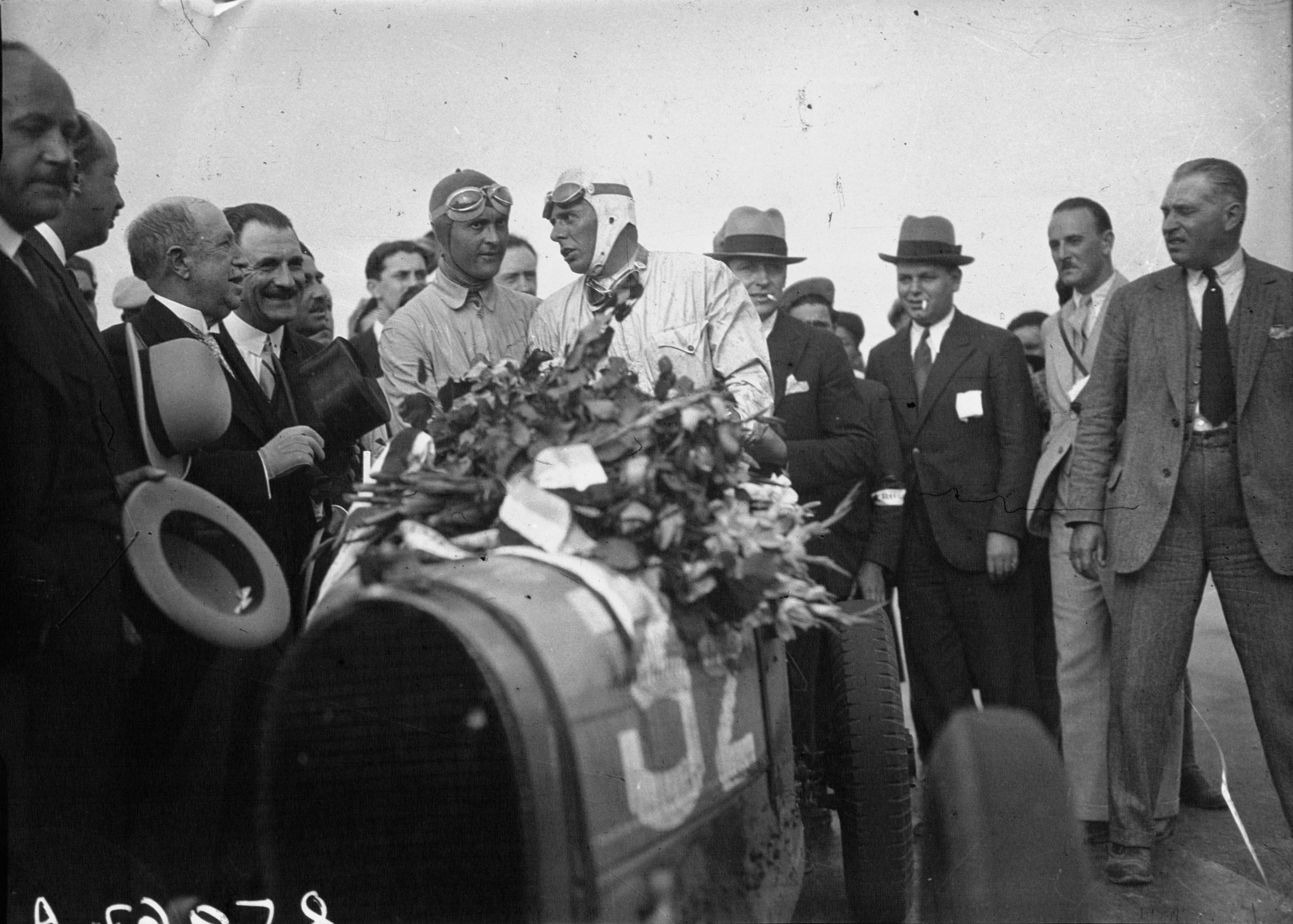 Louis Chiron and Achille Varzi at the 1931 French Grand Prix